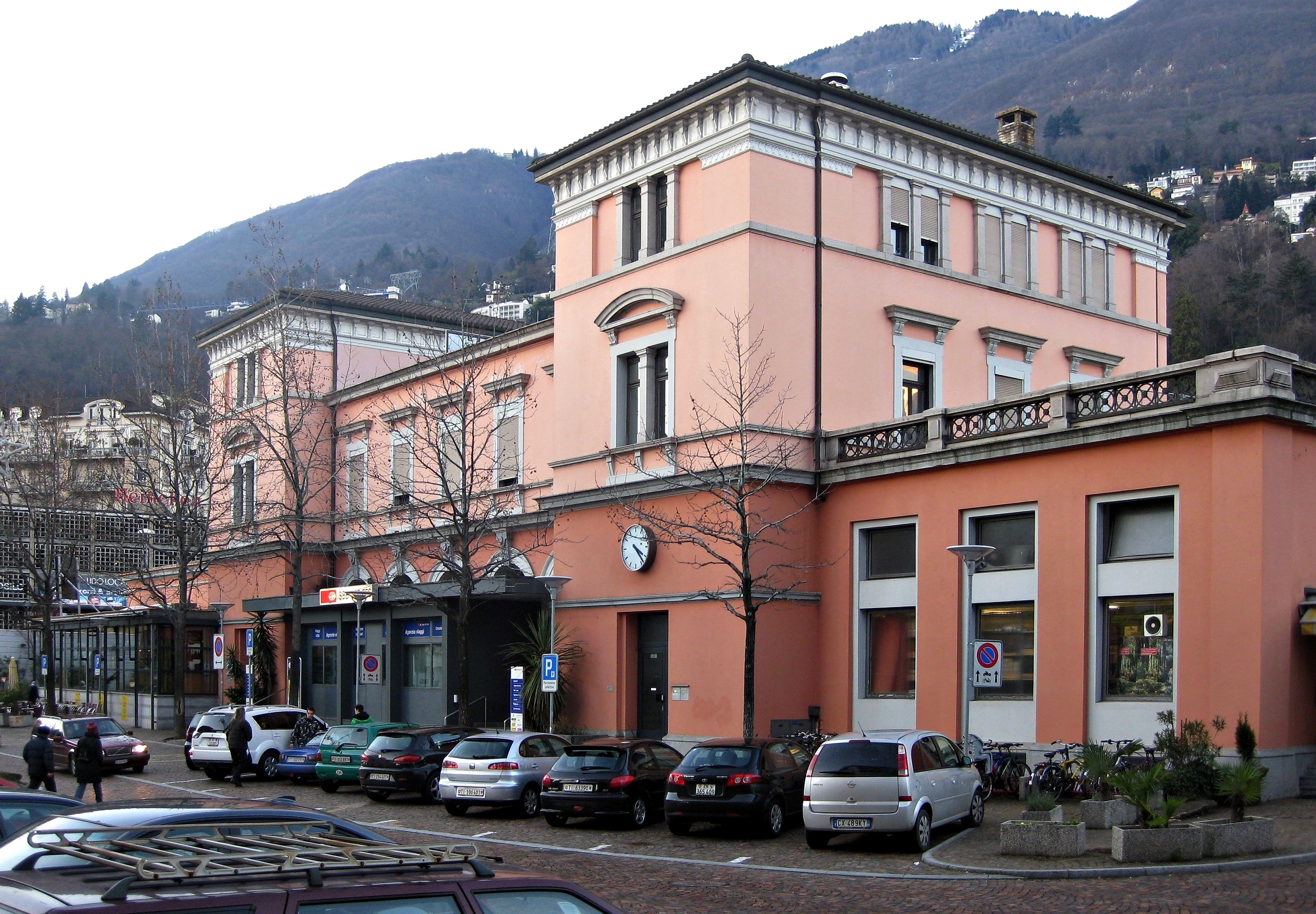 Entrance building of railway station in Locarno/Switzerland